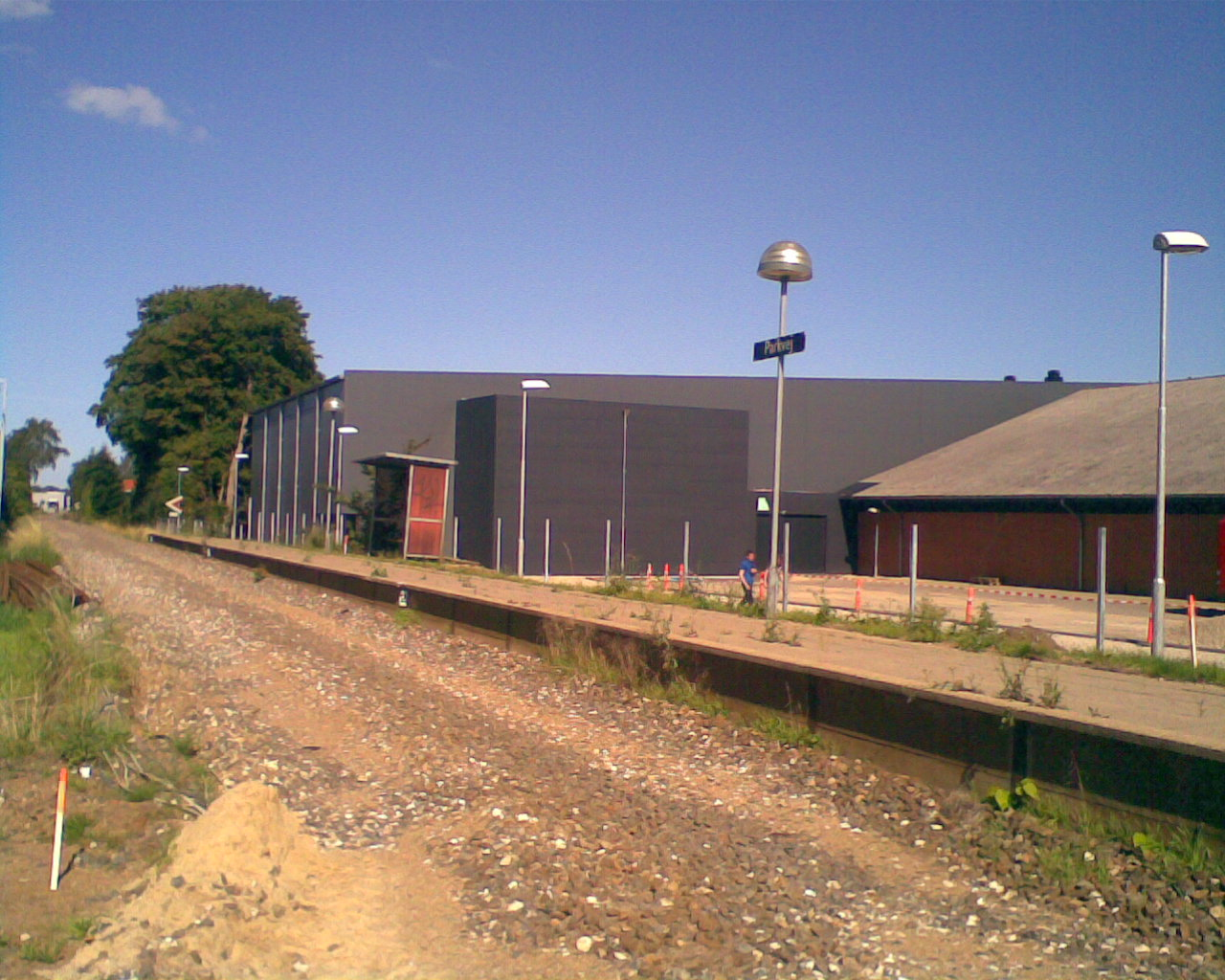 Parkvej station, Odder, Denmark